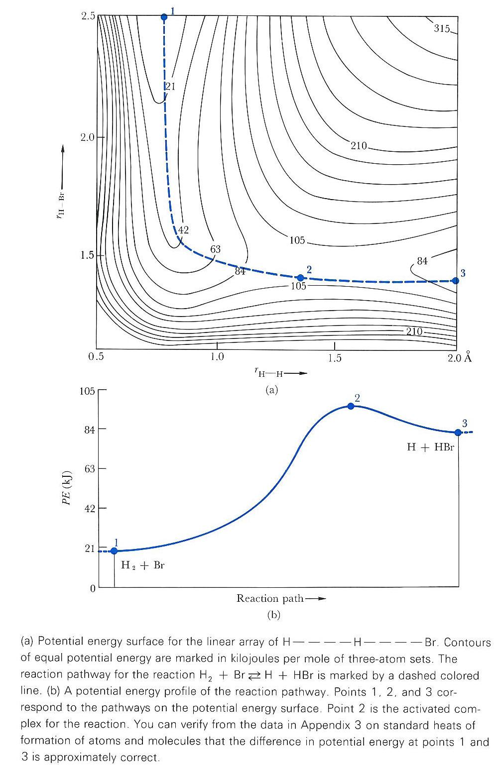 Contour plot of potential energy surface